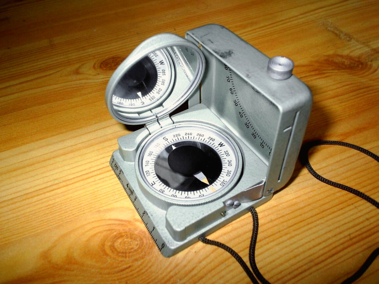 Compass in a metallic frame